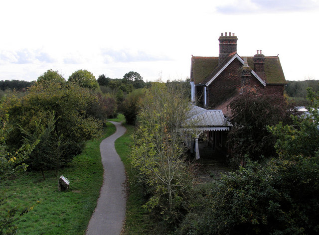 Hellingly railway station Original description: Hellingly Railway Station The station was built in "Tudor Style" in 1880 on the line that ran between Polegate and Eridge via Heathfield. There were once several lines and sidings and to the left of the picture there was a branch line that ran to the nearby Lunatic Asylum. The line closed in 1965 but the station building is vitually unchanged and is now a private residence